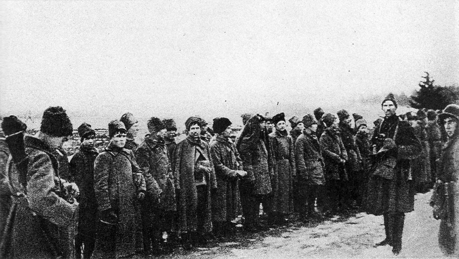 Prisoners of war taken during the Battle of Tapa. Commander of the armored trains Karl Parts (with the binoculars) on the right.